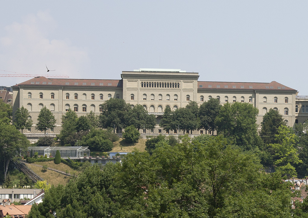 The west wing of the Federal Palace of Switzerland, seen from south (Berne, Switzerland).